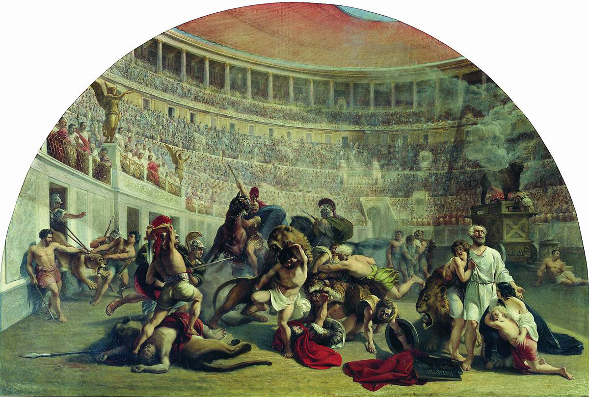 Alexey Markov (1802-1878) Eustachio Placido in the Coliseum